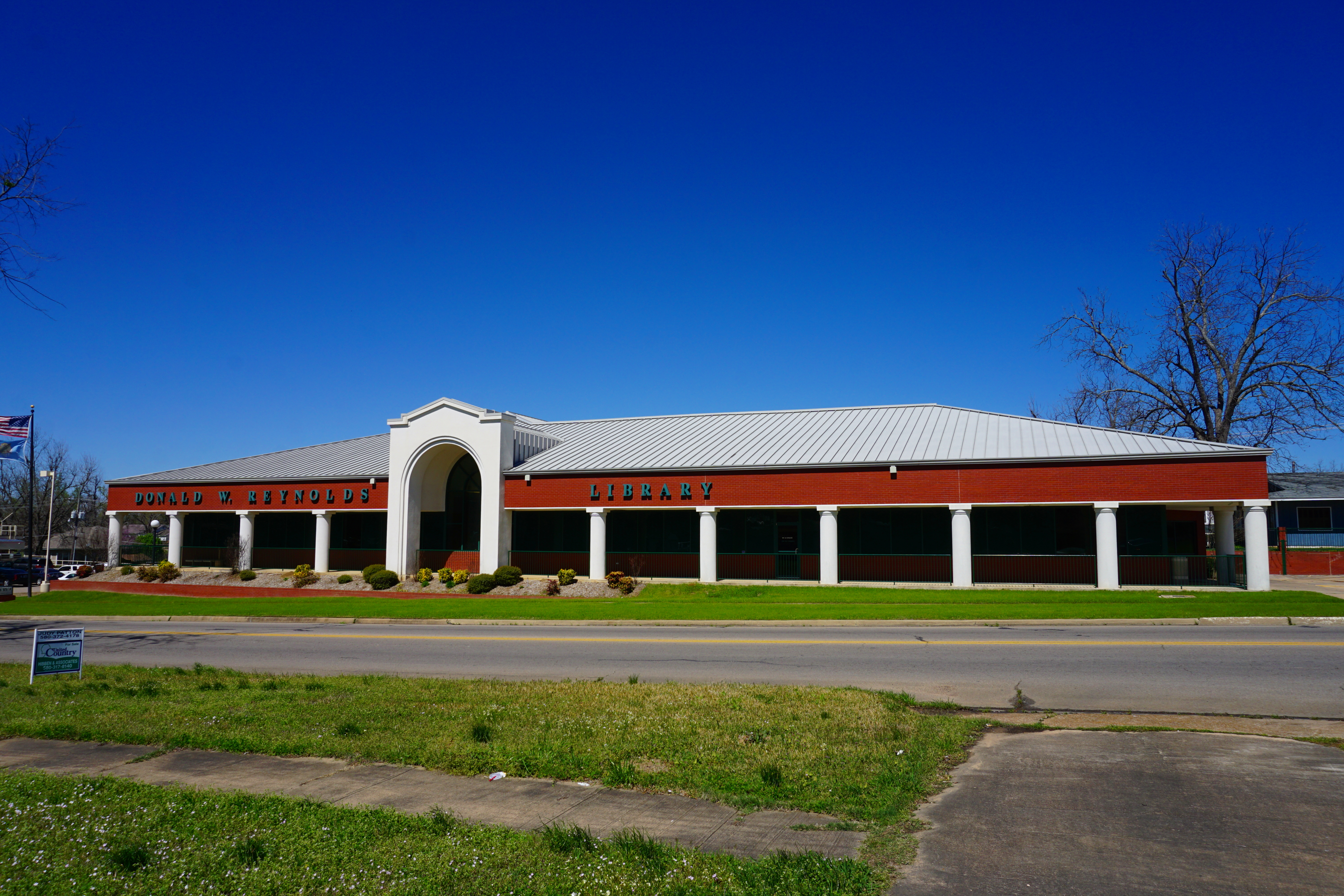 The Donald W. Reynolds Library in Hugo, Oklahoma (United States).